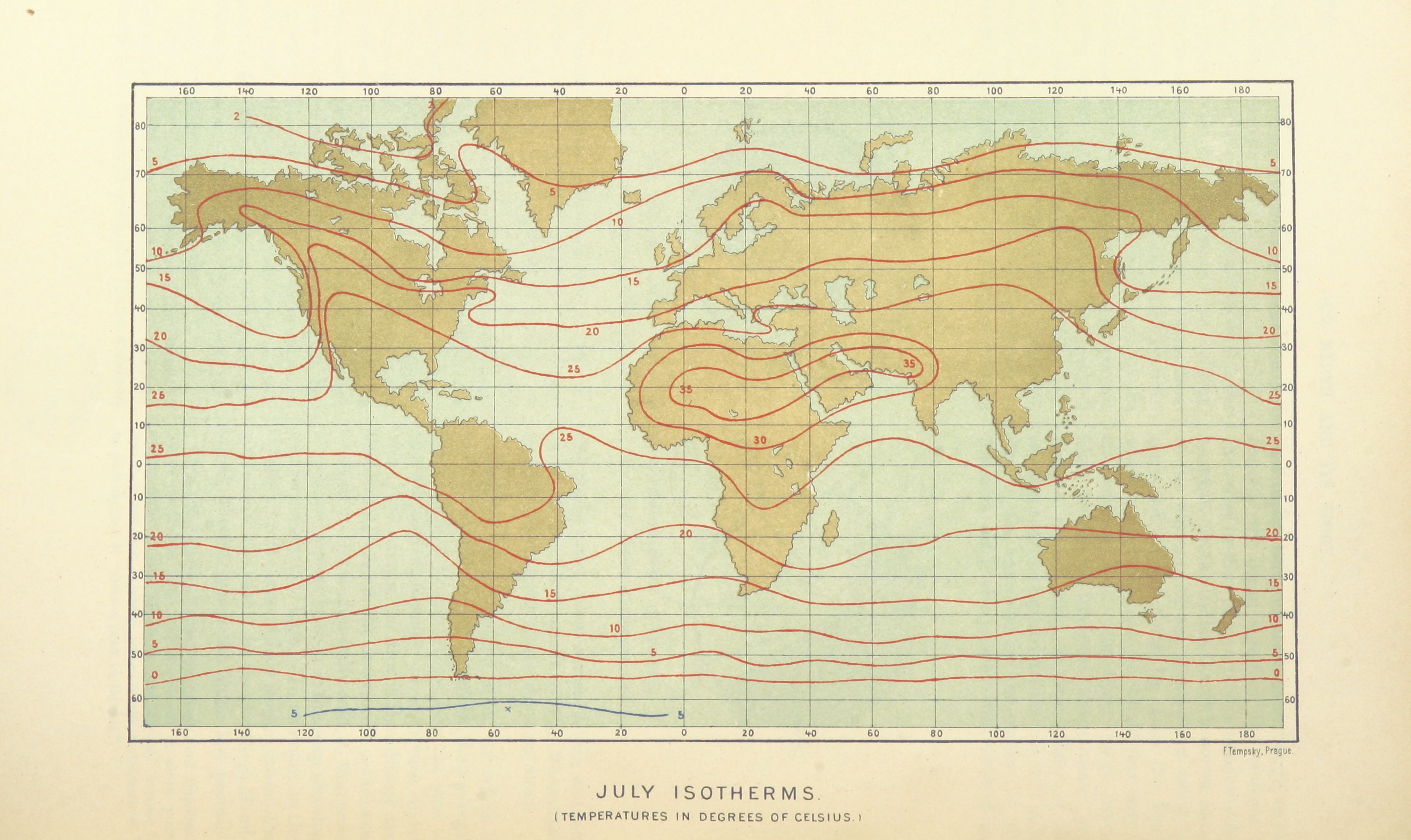 Image taken from: Title: "[Our Earth and its Story: a popular treatise on physical geography. Edited by R. Brown. With ... coloured plates and maps, etc.]" Author: BROWN, Robert - M.A., Ph.D Shelfmark: "British Library HMNTS 10006.ff.6." Volume: 02 Page: 352 Place of Publishing: London Date of Publishing: 1893 Issuance: monographic Identifier: 000495550 Explore: Find this item in the British Library catalogue, 'Explore'. Open the page in the British Library's itemViewer (page image 352) Download the PDF for this book Image found on book scan 352 (NB not a pagenumber)Download the OCR-derived text for this volume: (plain text) or (json) Click here to see all the illustrations in this book and click here to browse other illustrations published in books in the same year. Order a higher quality version from here.